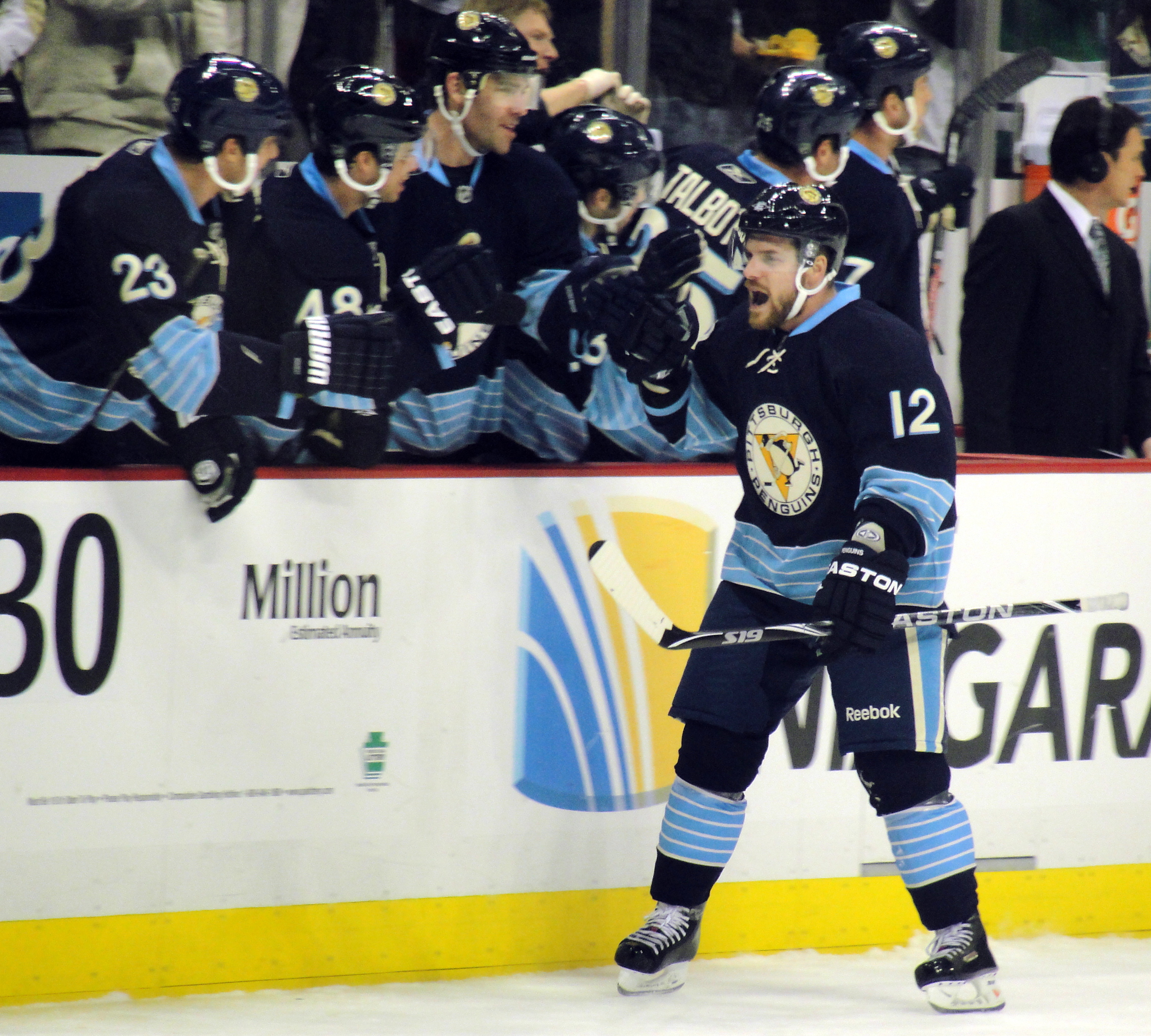 The Pittsburgh Penguins celebrate Brett Sterling's 1st period goal in his February 10, 2011 debut against the Los Angeles Kings at Consol Energy Center in Pittsburgh, PA.